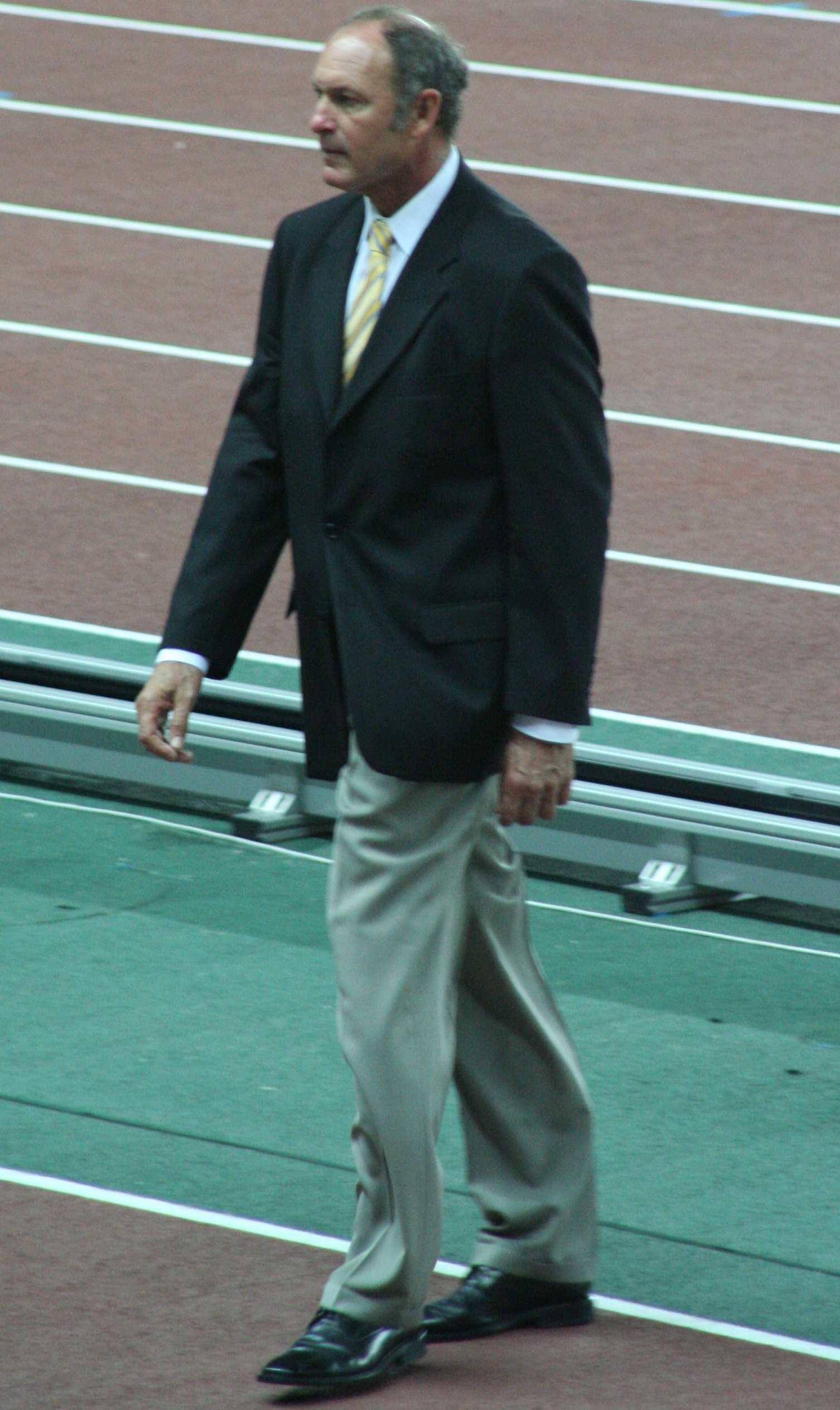 World Athletics Championships 2007 in Osaka - Alberto Juantorena after assisting at a(nother) victory ceremony